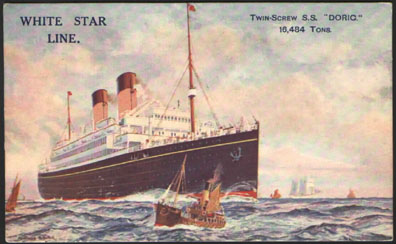 The White Star Liner Doric